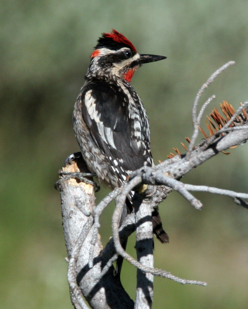 Red-naped sapsucker (Sphyrapicus nuchalis), Jarbidge Mtns, Nevada, USA